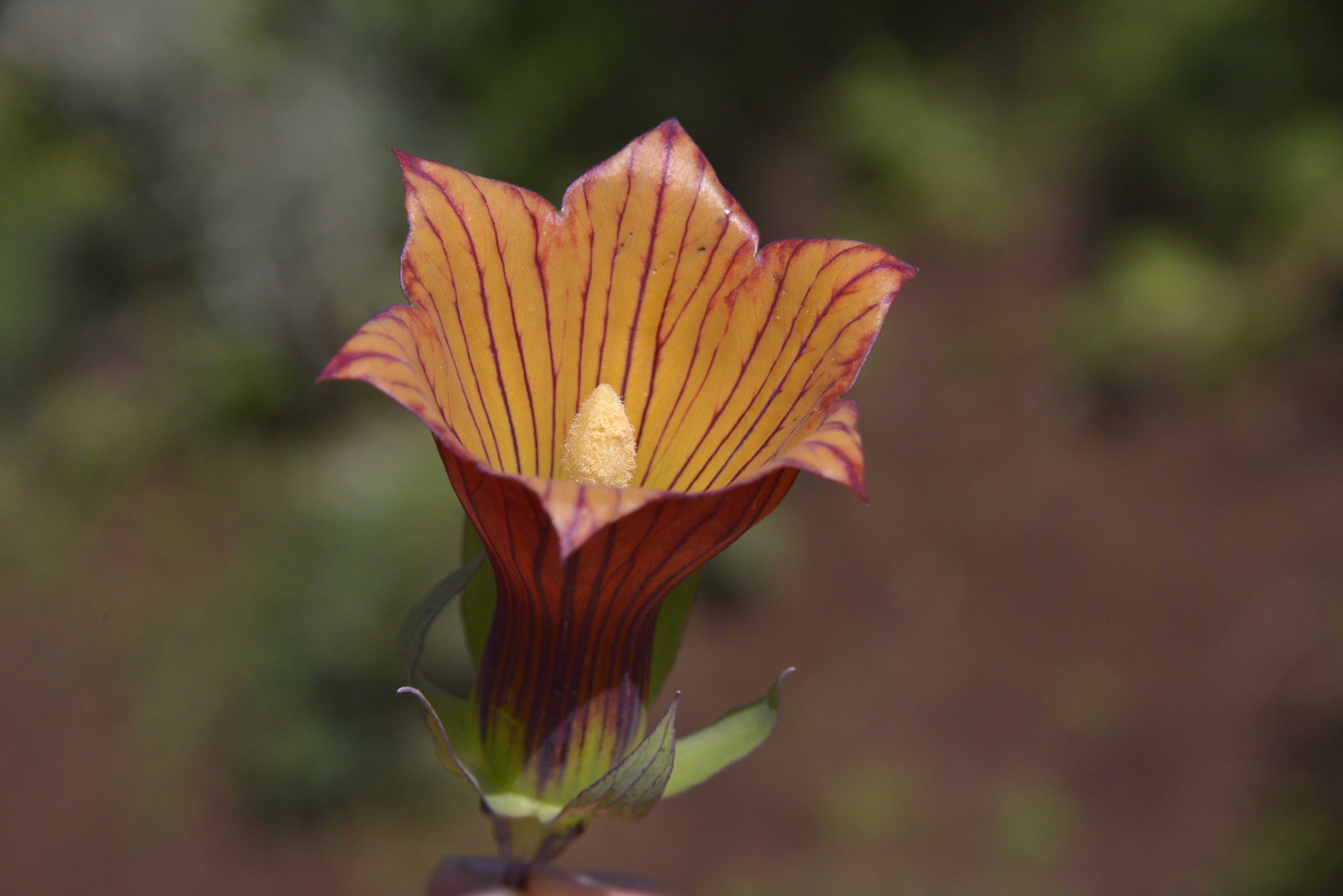 Flowering Creeper, Ethiopia